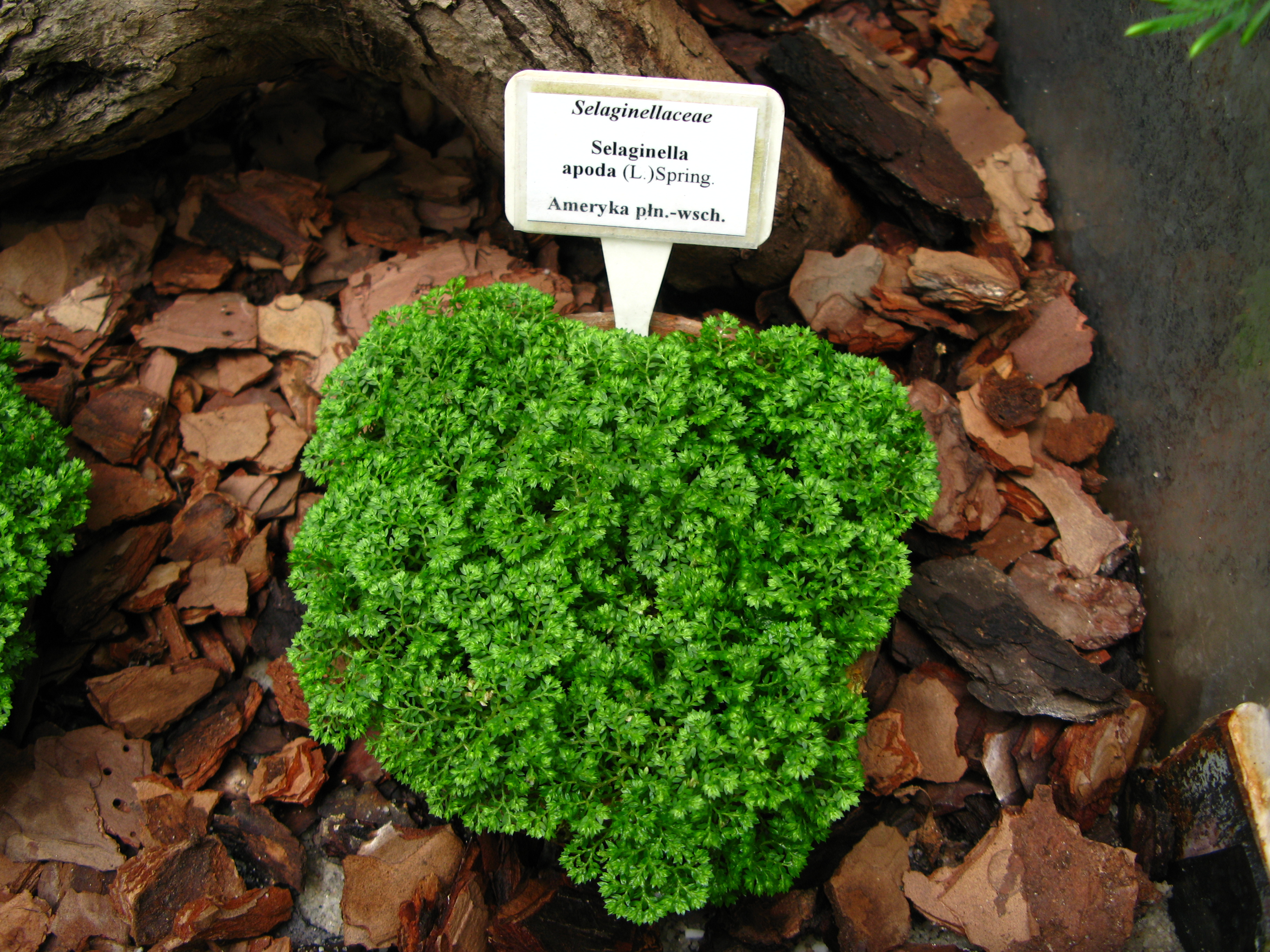 Selaginella apoda in Botanical garden in Kraków